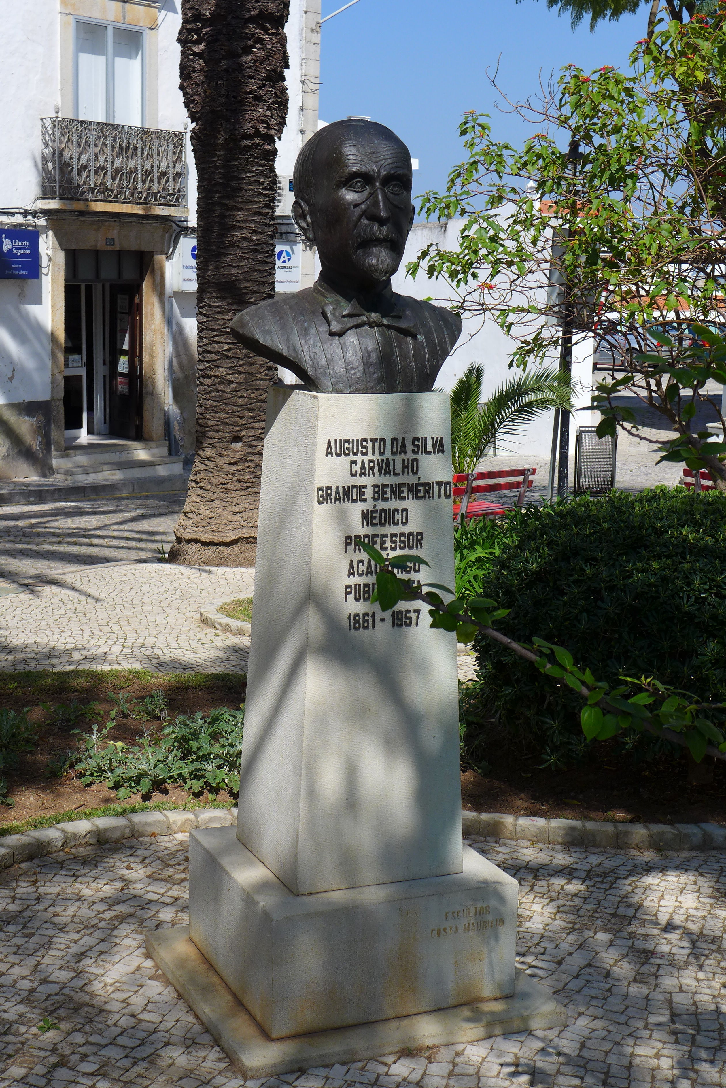 Statue of Augusto da Silva Carvalho in Tavira (Zacarias Guerreiro Square)